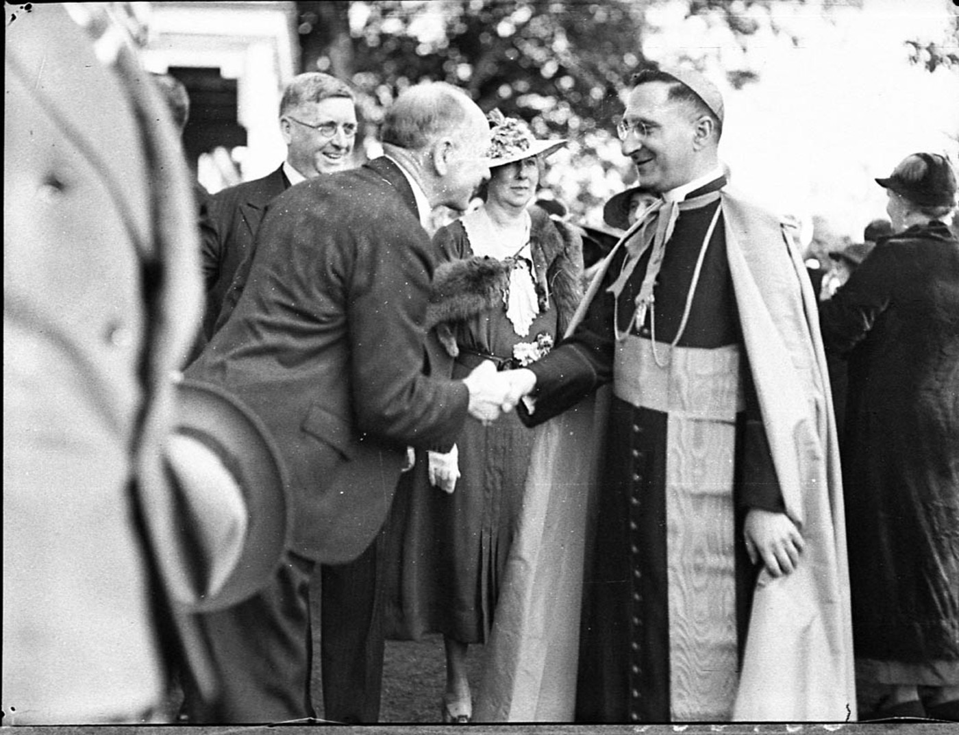 Papal delegate, Dr Panico's garden party